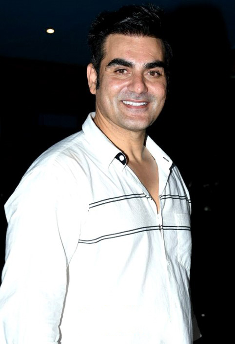 Arbaaz Khan at his birthday bash at Su Casa.